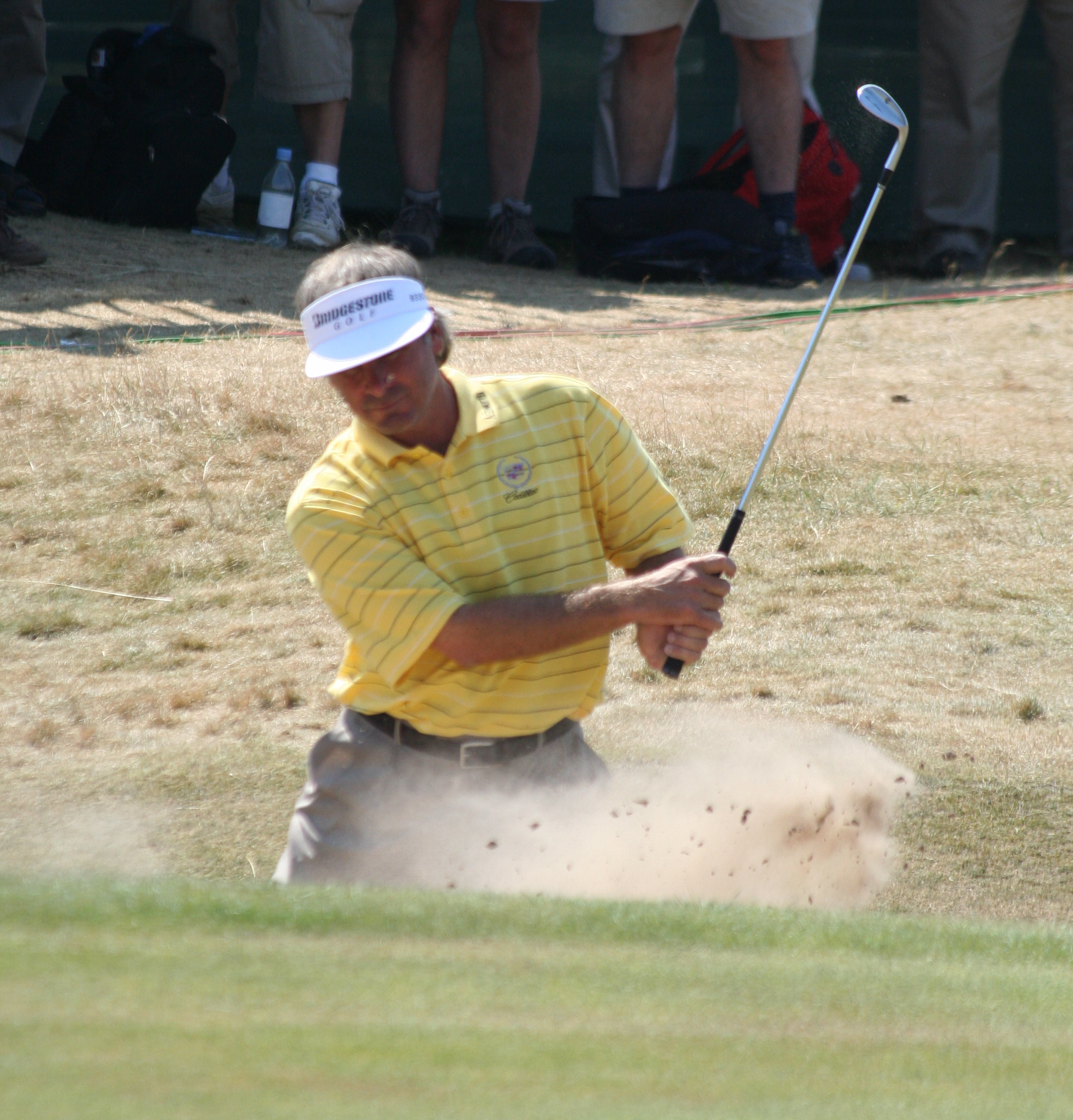 The american professional golfer Fred Couples